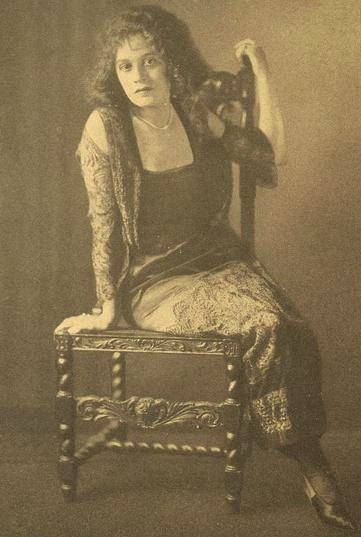 Lenore Ulric in The Son-Daughter (original image cropped : see source)